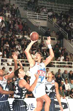 Former Argentine basketball player Hernán Montenegro.